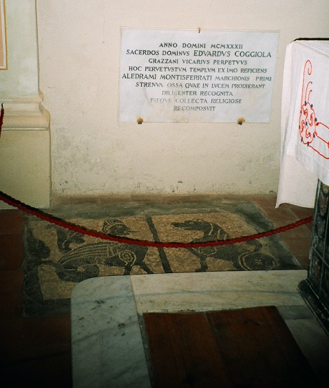 Tomb of Aleramo of Montferrat in the parish church of Grazzano Badoglio.Photo by Dr M M Gilchrist (User:Silverwhistle), 2005.